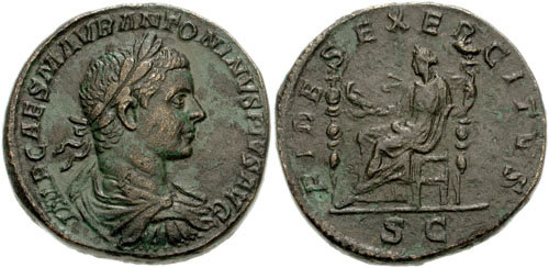 ELAGABALUS. 218-222 AD. Æ Sestertius (29mm, 24.45 g, 12h). Struck 219 AD. IMP CAES M AVR ANTONINVS PIVS AVG, laureate, draped, and cuirassed bust right, seen from behind FIDES EXERCITVS, S C in exergue, Fides Exercitus seated left, holding eagle and legionary aquila; military standard to left. RIC IV 345; BMCRE 348; Cohen 35.